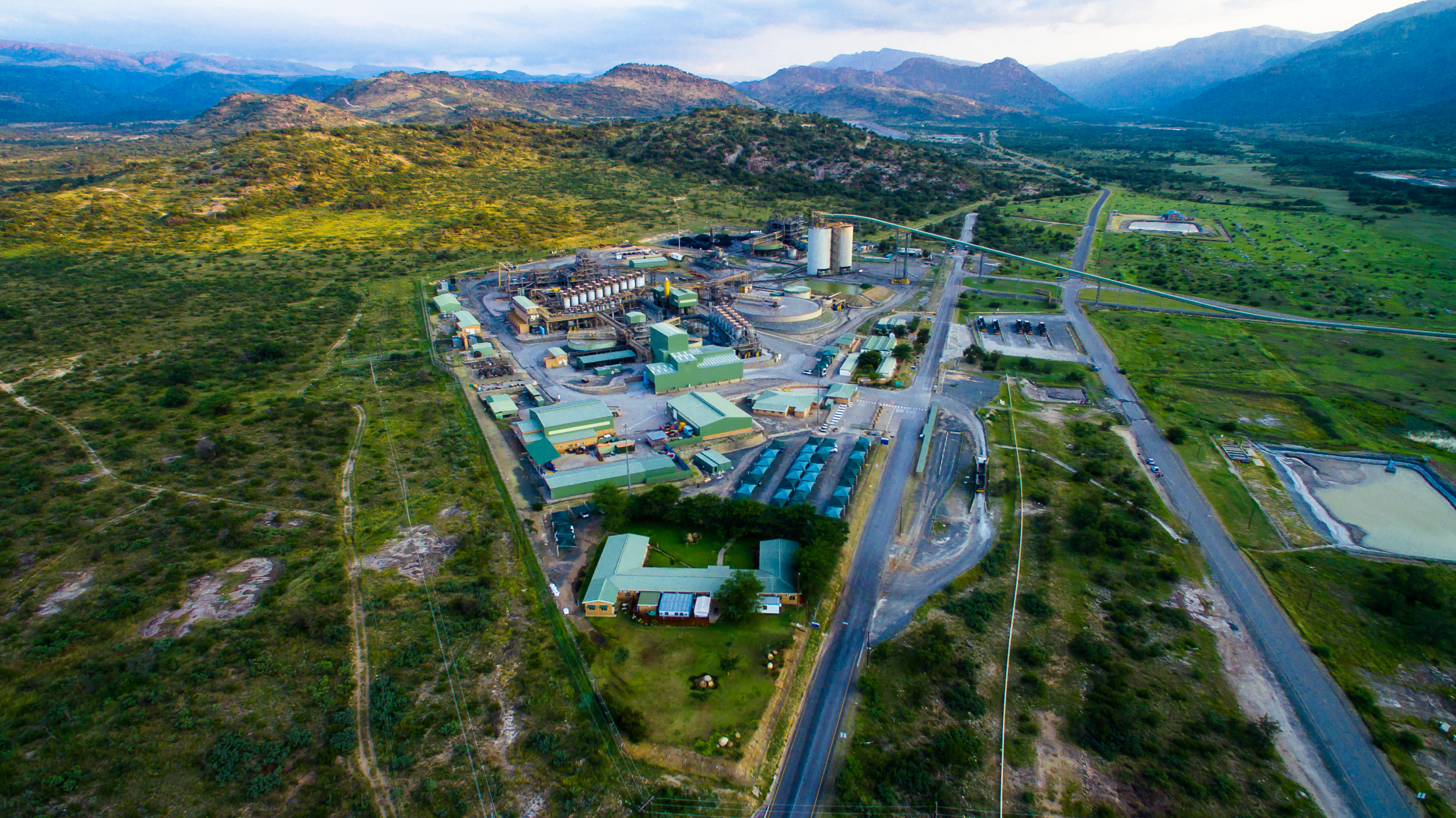 Platinum mining is an extremely lucrative mining industry found within South Africa. This particular mine is set within mountains offering a spectacular view of nature contrasted against heavy industry. This particular platinum mine is known as the Two Rivers mine which has a shared ownership between African Rainbow Minerals and Impala Platinum holdings limited.